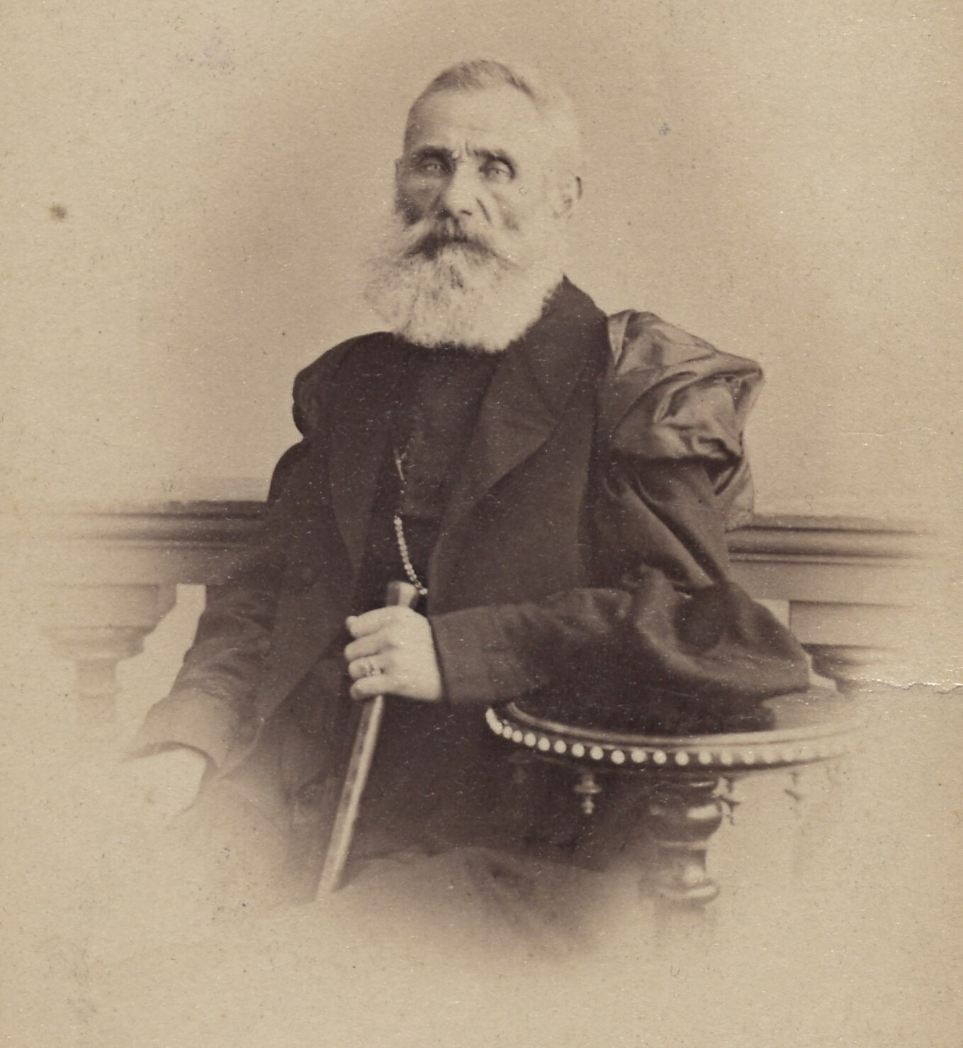 Jan Nepomucen Deszkiewicz, ok. 1863 r.